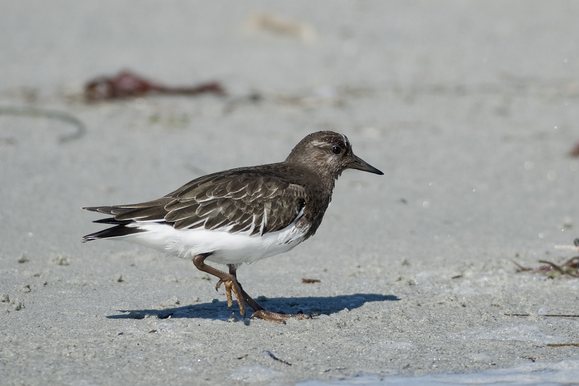 Black turnstone in California